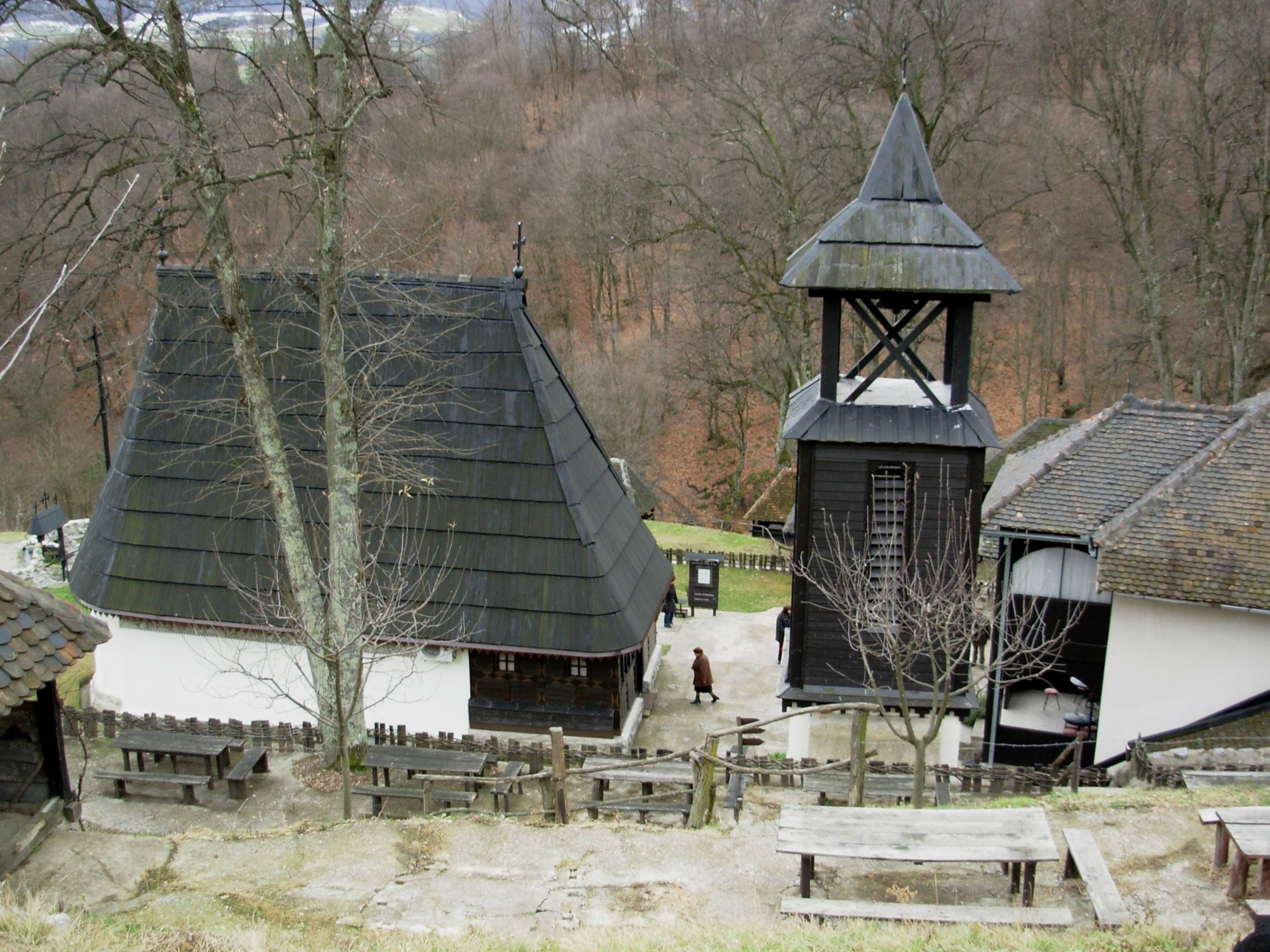 Church of Dobri Potok (Good Creek) near Krupanj, Serbia